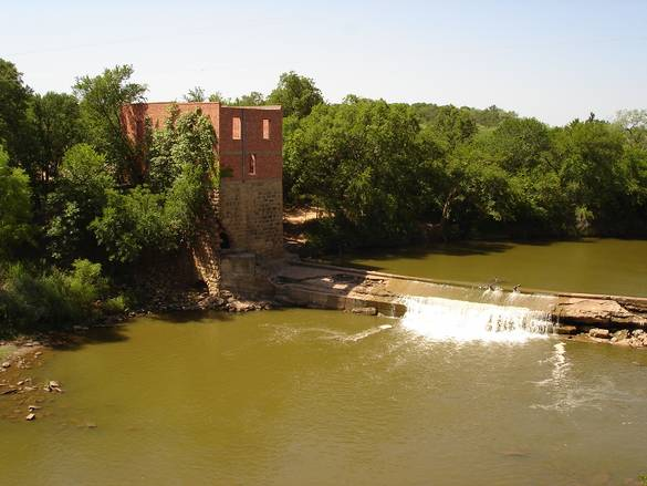 Eliasville, Texas dam and mill on the clearfork of the Brazos